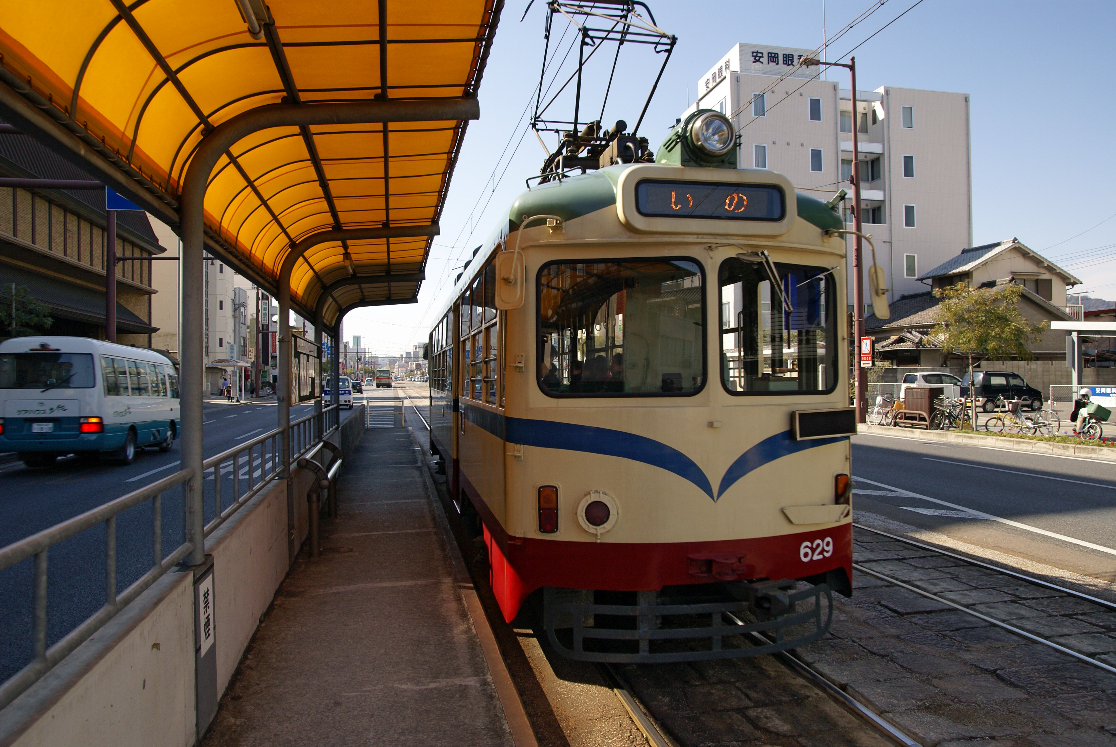 Kamimachi 1-chōme Station in Kochi, Kochi prefecture, Japan